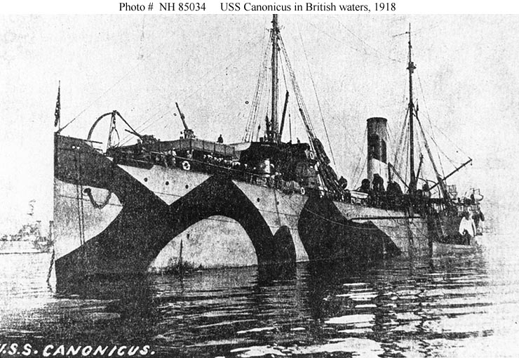 United States Navy minelayer USS Canonicus (ID-1696) in British waters in 1918